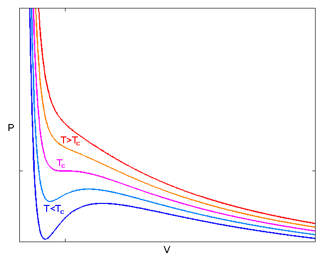 Isotherms of the Van der Waals equation of state. created by Eman using MATLAB